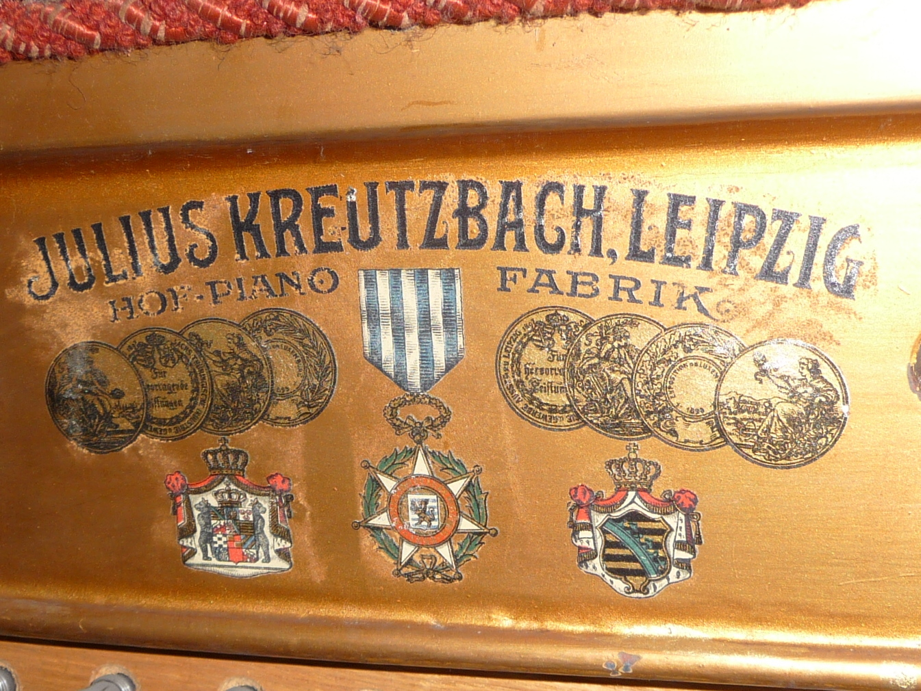 Julius Kreutzbach Piano Leipzig Germany